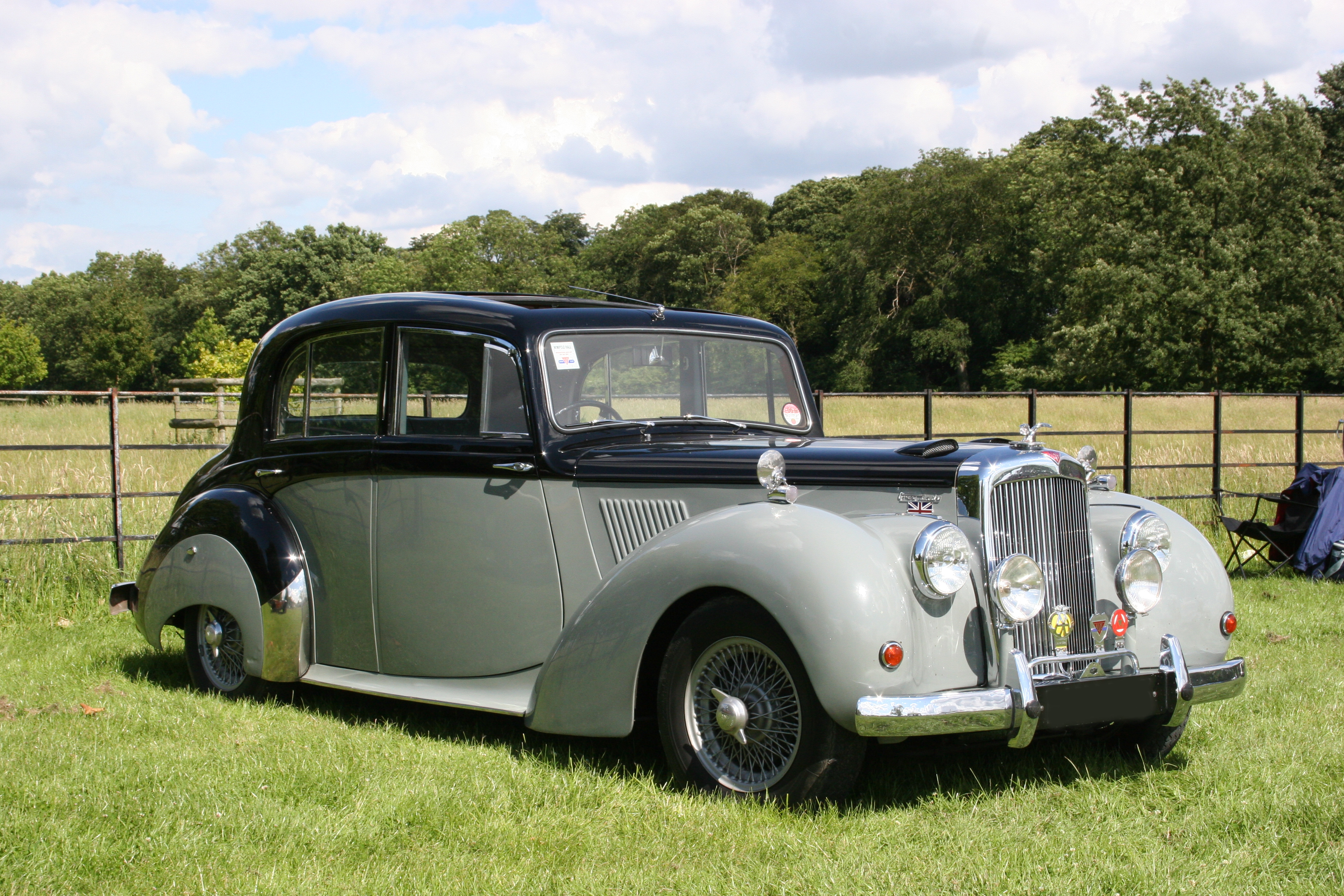 Alvis TC21 "Grey Lady" manufactured 1953.